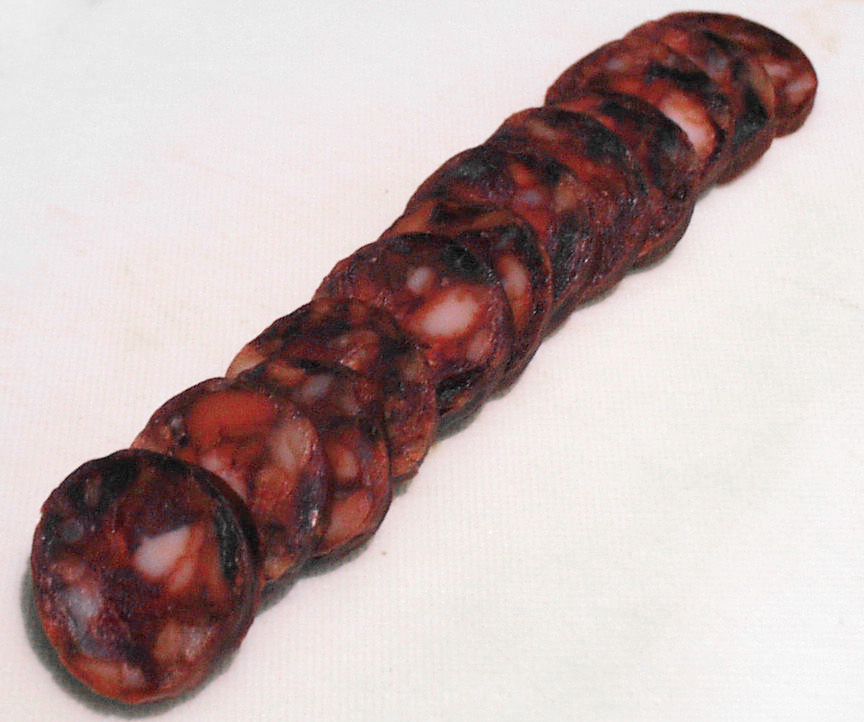 Chorizo cortado Taken by myself --Ardo Beltz 16:35, 9 Apr 2005 (UTC)